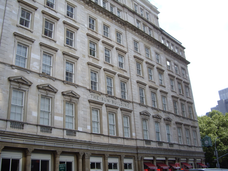 280 Broadway, Manhattan, New York City, New York State